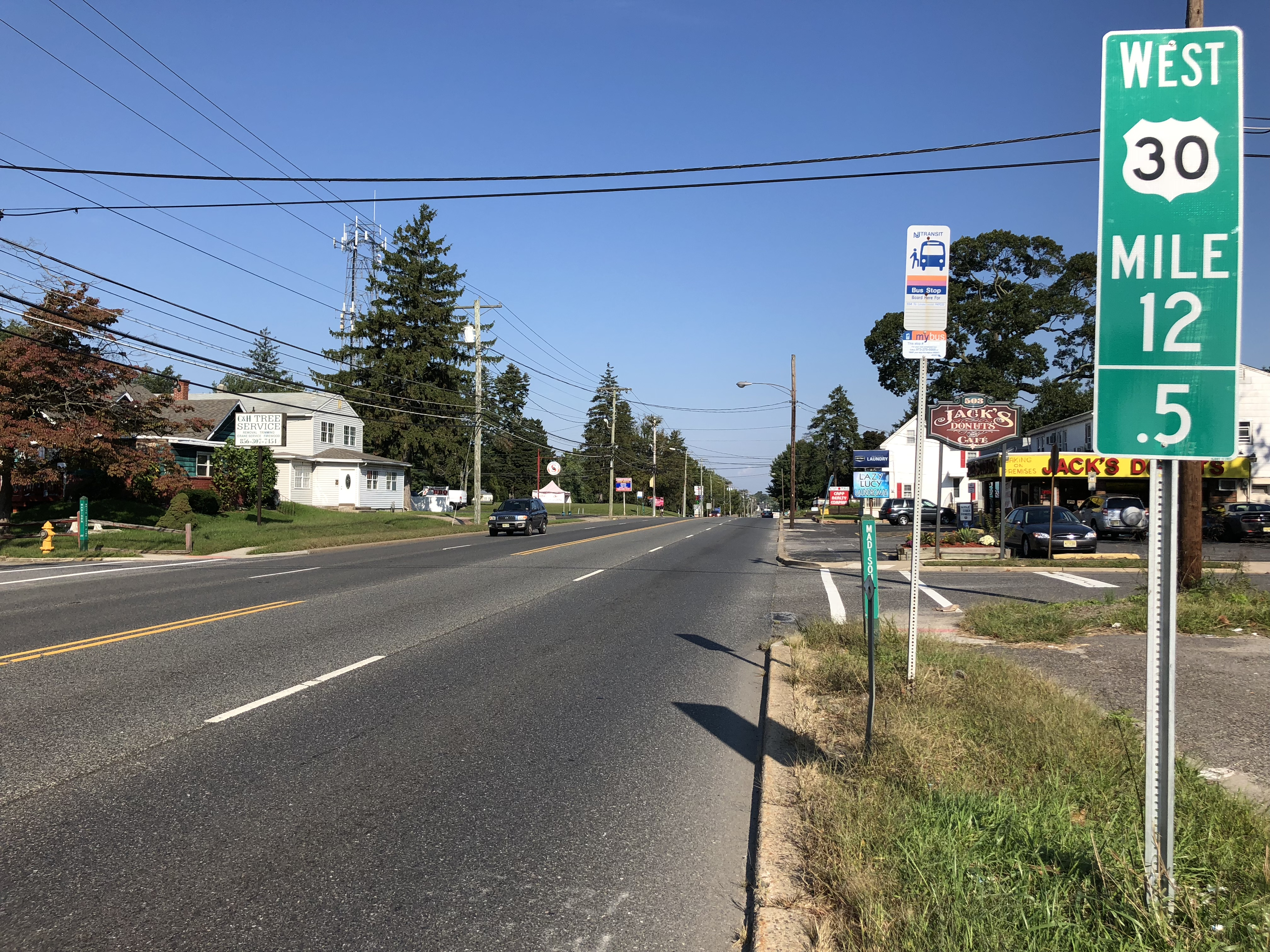 View west along U.S. Route 30 (White Horse Pike) at Madison Avenue along the border of Laurel Springs and Lindenwold in Camden County, New Jersey